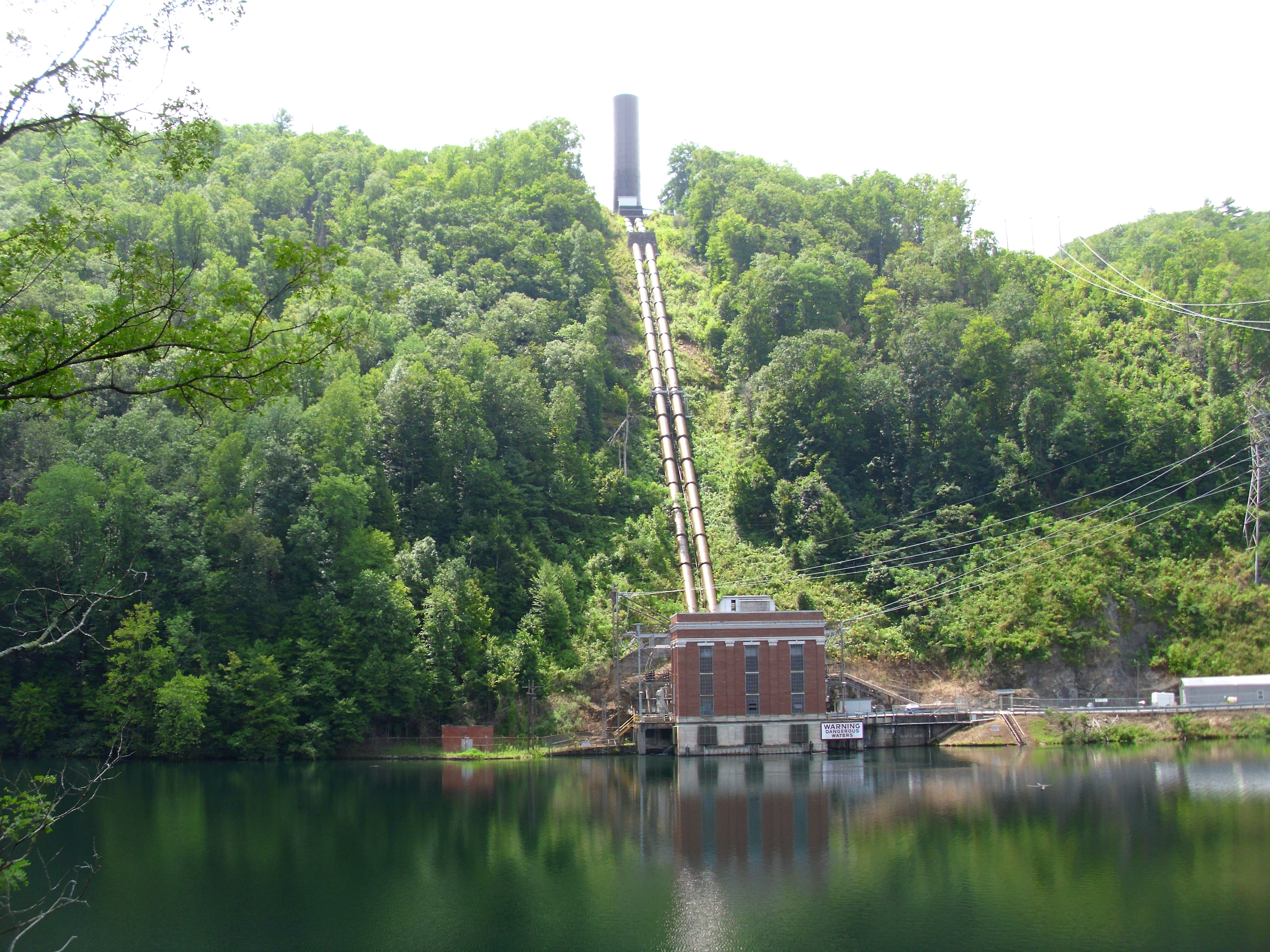 This is the Santeetlah Development powerhouse on the Little Tennessee River (Cheoah Reservoir).